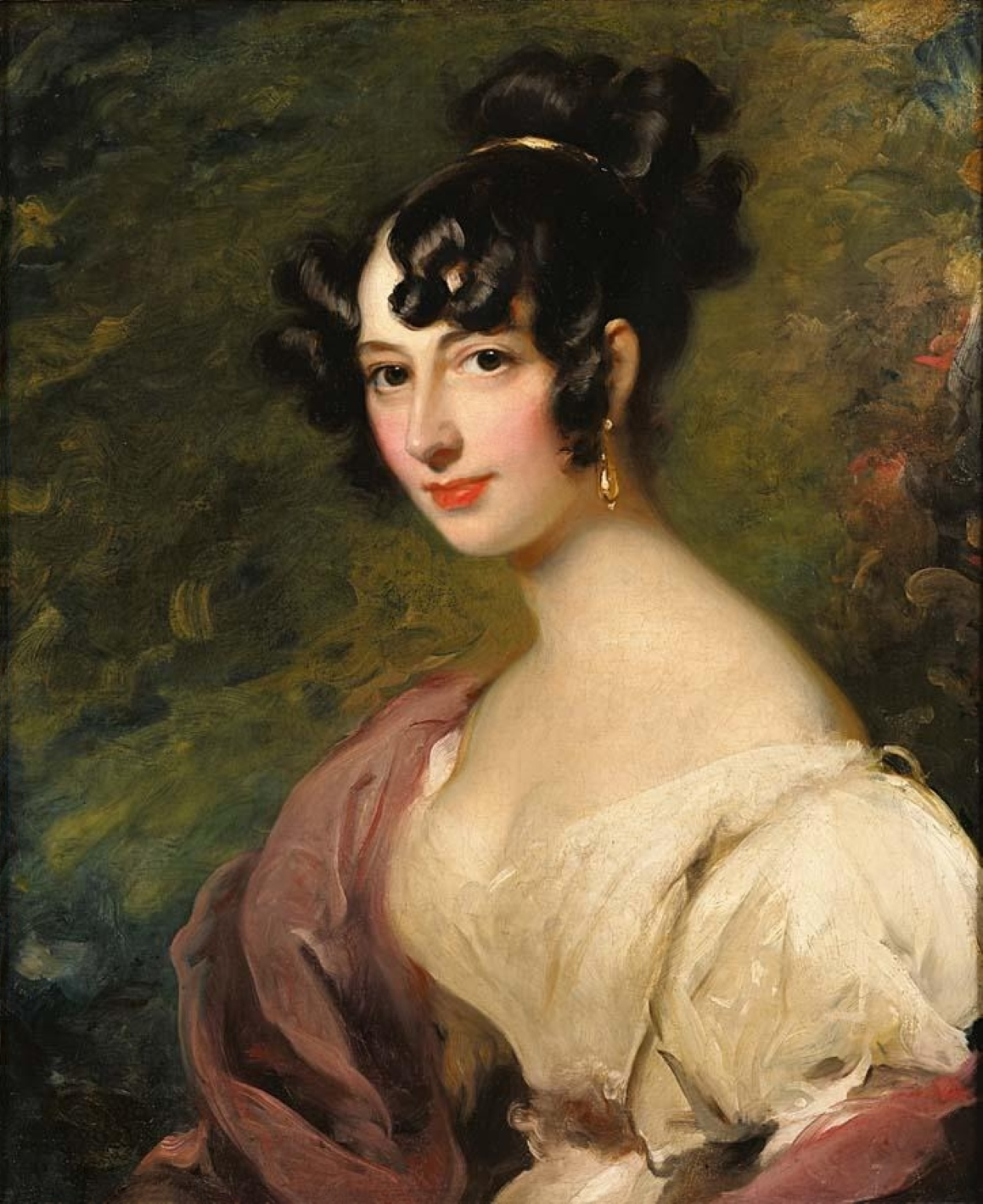 Countess, later HSH Princess Dorothea von Lieven (Latvian: Doroteja fon Līvena